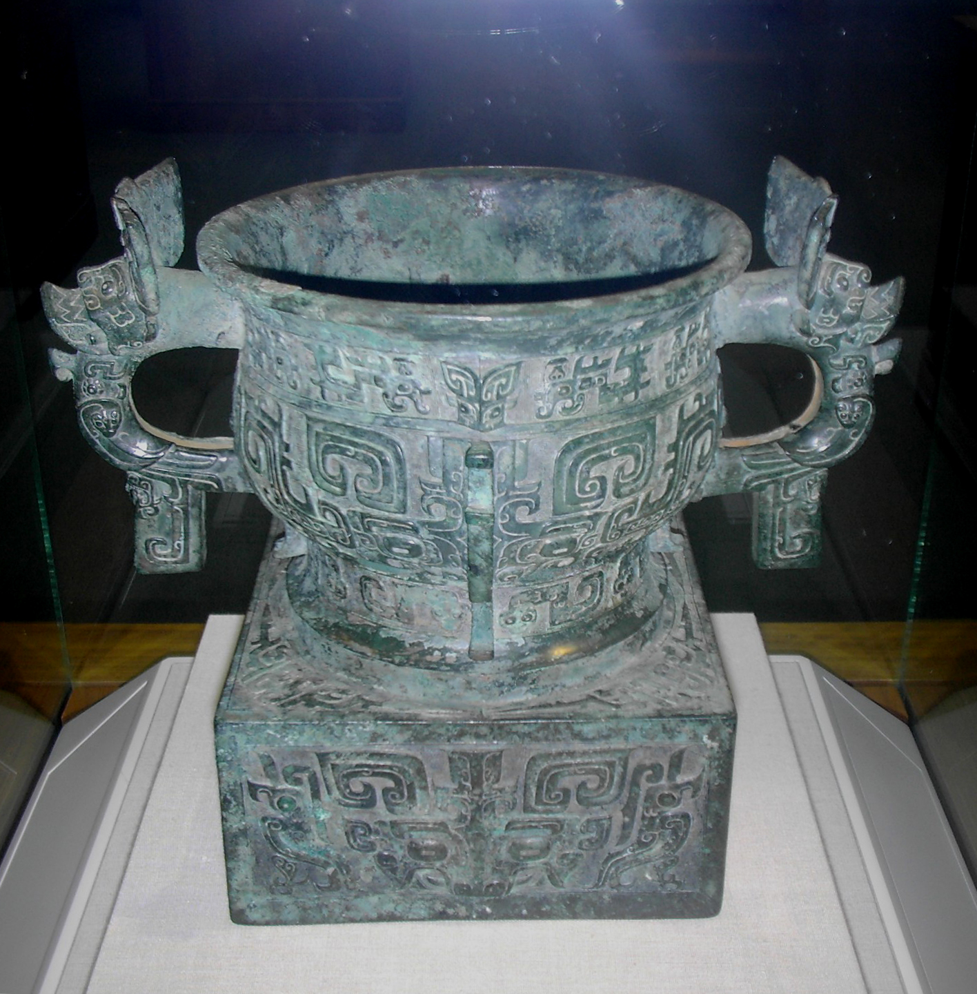 A Chinese bronze "gui" ritual vessel on a pedestal, used as a container for grain. From the Western Zhou Dynasty, dated c. 1000 BC. The written inscription of 11 ancient Chinese characters on the bronze vessel states its use and ownership by Zhou royalty. From the Freer and Sackler Galleries of Washington D.C.